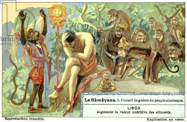 5226276 Scene from the Hindu epic poem the Ramayana: council of war of the Vanaras (chromolitho) by European School, (20th century); Private Collection; ( .: Scene from the Hindu epic poem the Ramayana: council of war of the Vanaras. Liebig card, early 20th century.); © Look and Learn; European, it is possible that some works by this artist may be protected by third party rights in some territories.